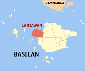 Map of the Basilan showing the location of Lantawan